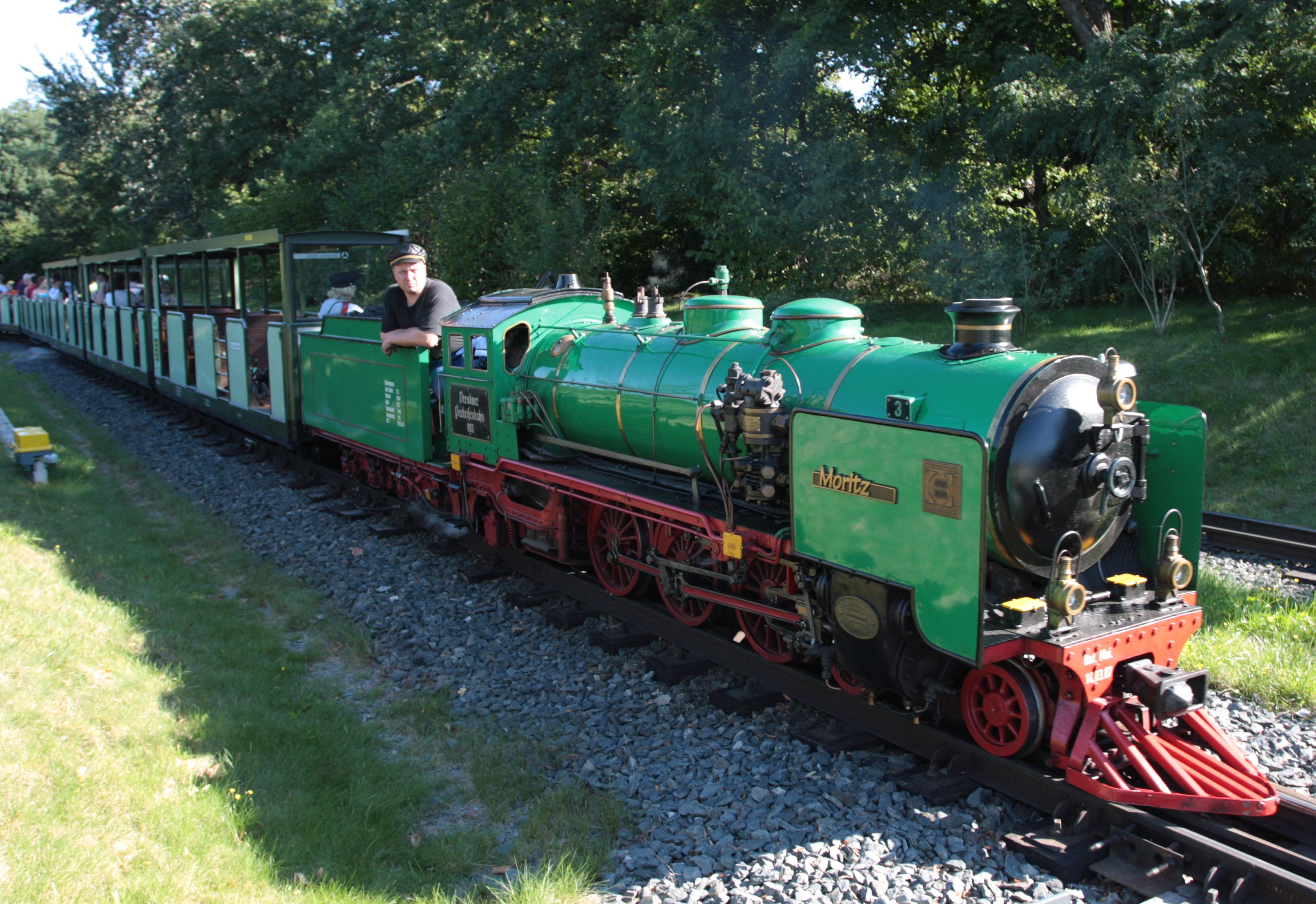 steam engine "Moritz" (Dresden Park Railway)